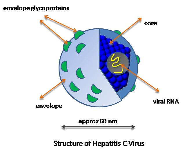 Simplified diagram of the structure of Hepatitis C virus